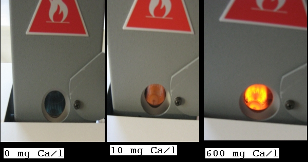 Flame photometric assessment of calcium ions dissolved in different concentrations.